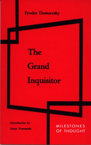 Book cover of the chapter "The Grand Inquisitor" by Fyodor Dostoevsky